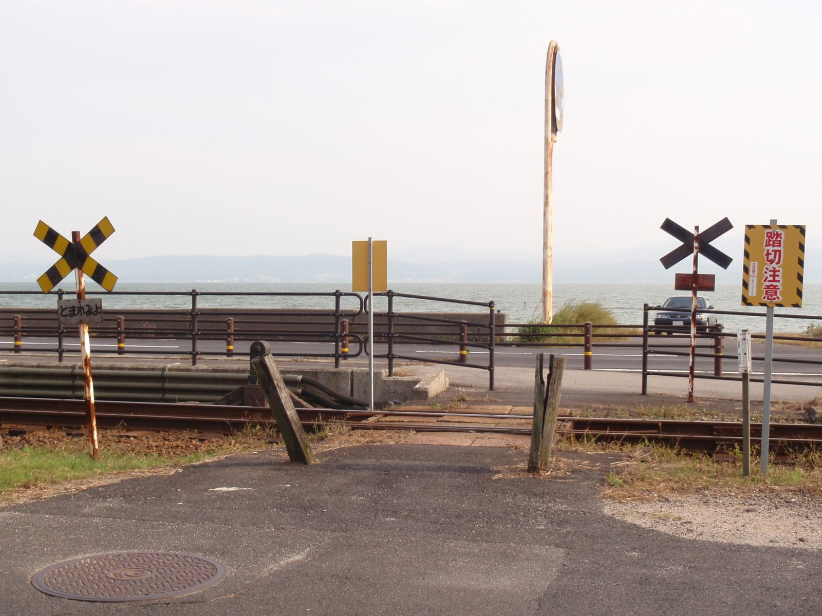 Crossing at Aikamachi Sta. by Ichibata Electric Railway(BATADEN).